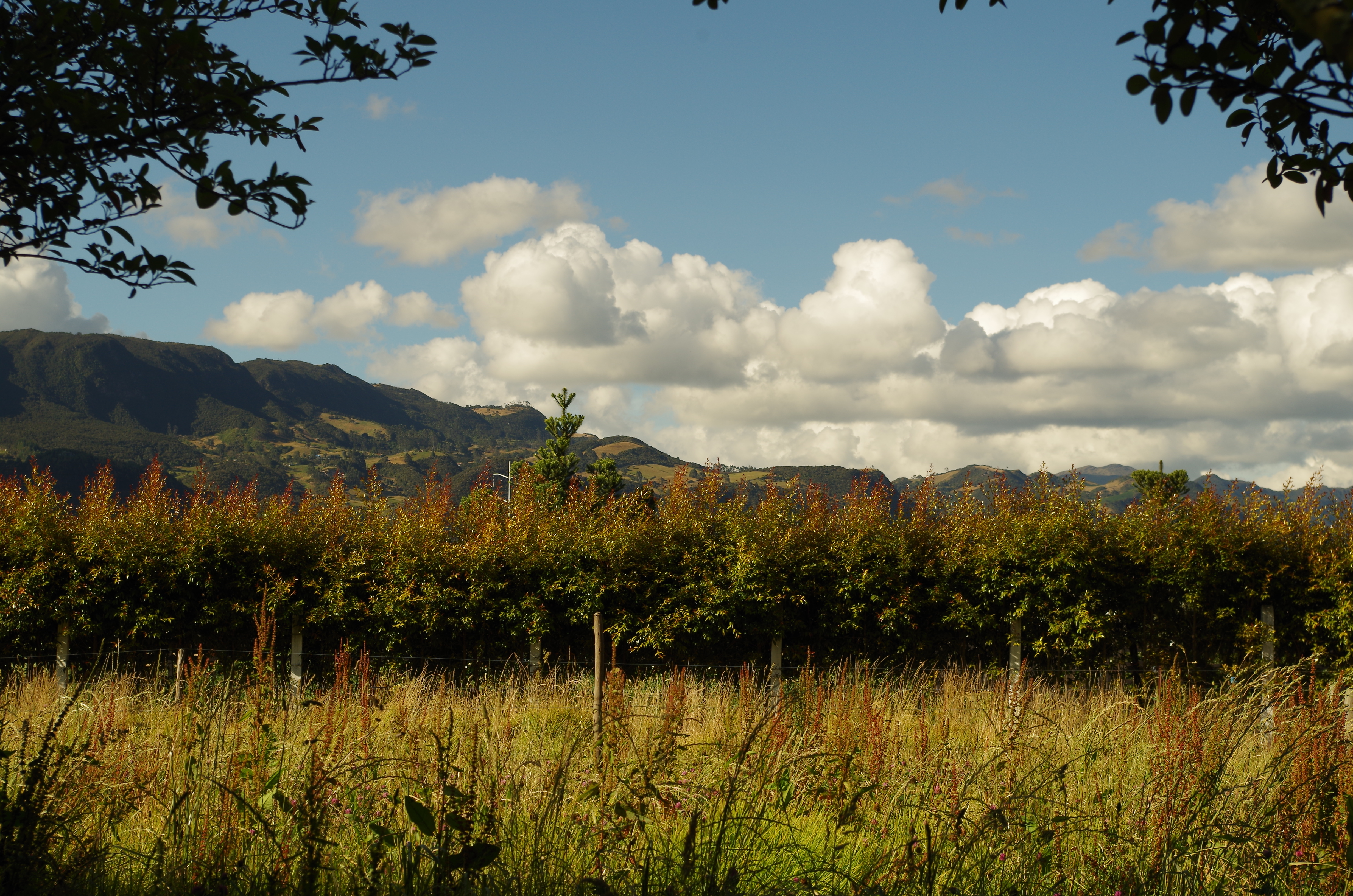 Picture of a landscape at the Altiplano Cundiboyacense, département de Cundinamarca, Colombia